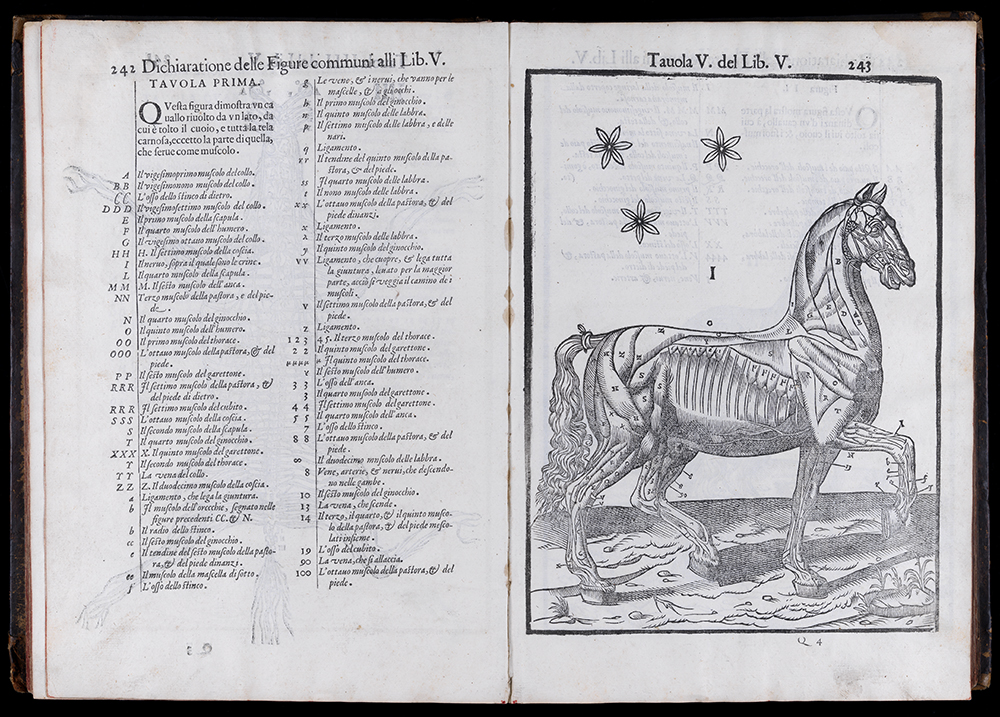 Anatomia Del Cavallo, Infermita, et Suoi Rimedii, (The Anatomy of the Horse, Diseases and Treatments), Carlo Ruini, 1618 This image is available from the University of Edinburgh Image Collections This item is part of University of Edinburgh Image Collections, gal~5~5~150708~165171View the image in Wikimedia's IIIF-compliant Mirador viewer which enables high resolution zooming.View the image in its original context in the University of Edinburgh Image Collections Catalogue This file was uploaded as part of a GLAMWiki partnership with the University of Edinburgh. This tag does not indicate the copyright status of the attached work. A normal copyright tag is still required. See Commons:Licensing for more information.